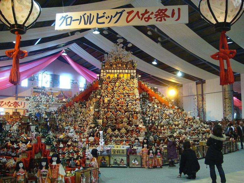 Big hinamatsu in Katsuura town Tokushima Japan.